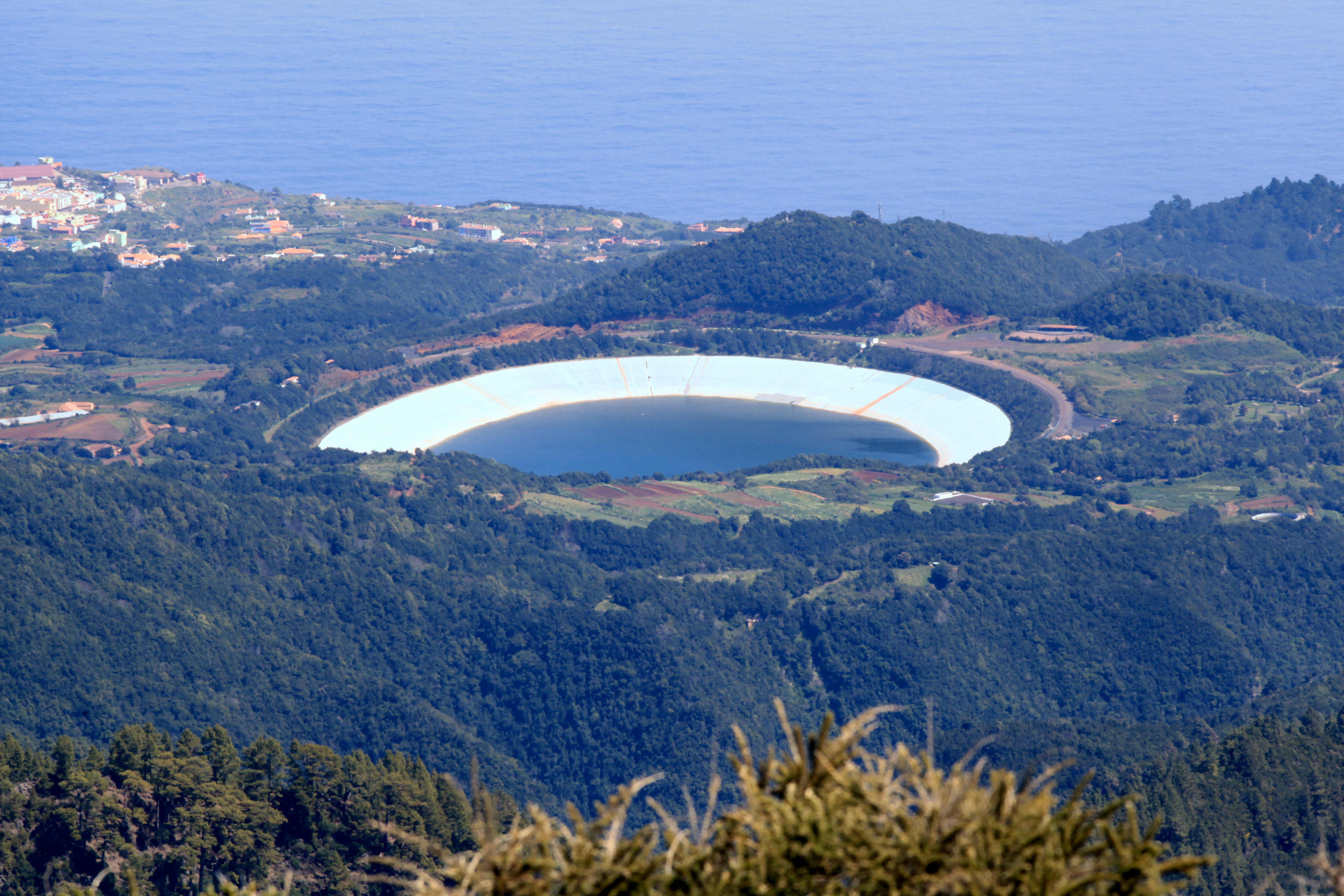 View from road LP-4 in San Andrés y Sauces down to Barlovento and its Laguna, La Palma, Canary Island, Spain